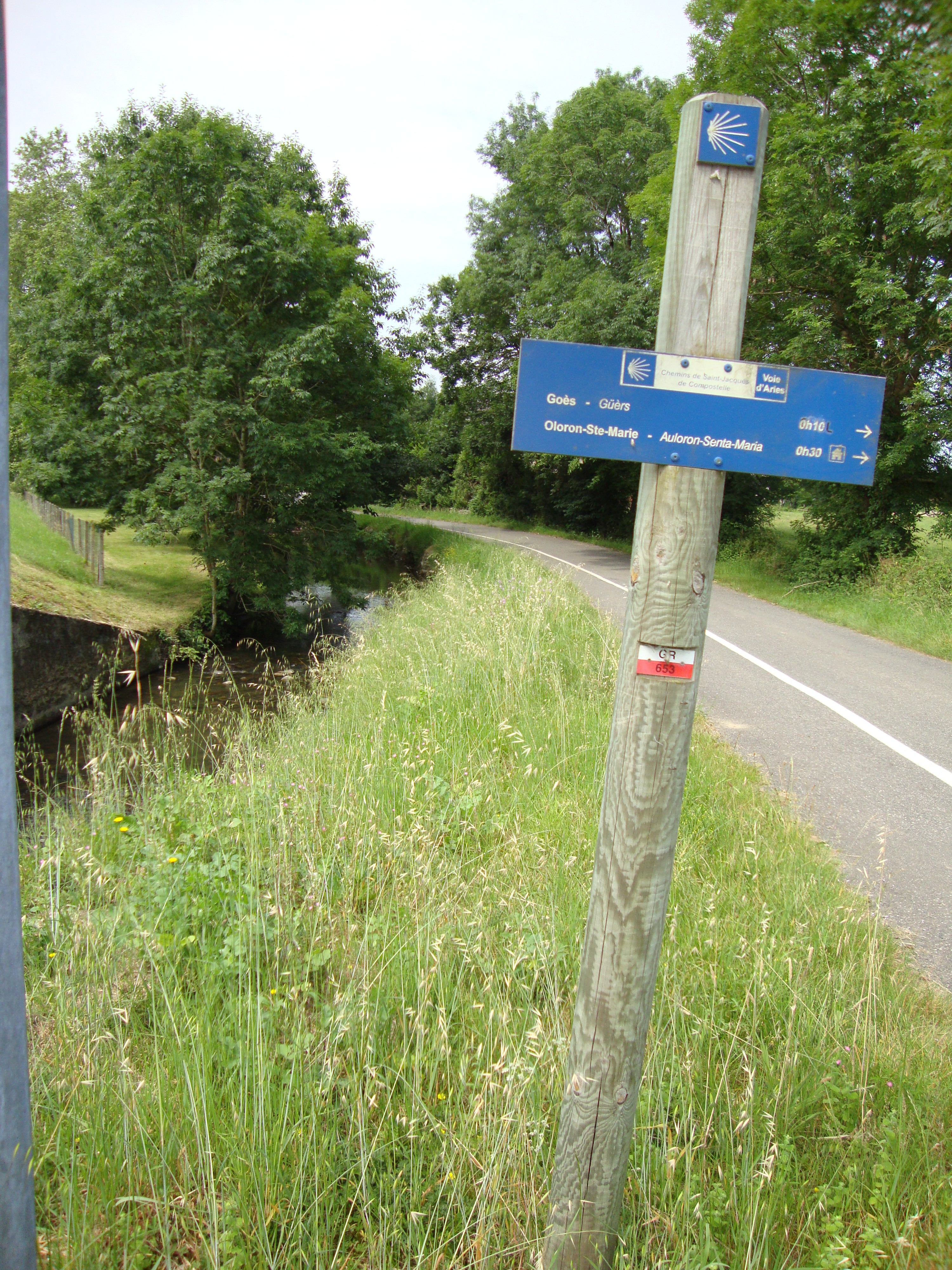 Goès (Pyr-Atl, Fr) where the Way of St. James passes along the Escou river